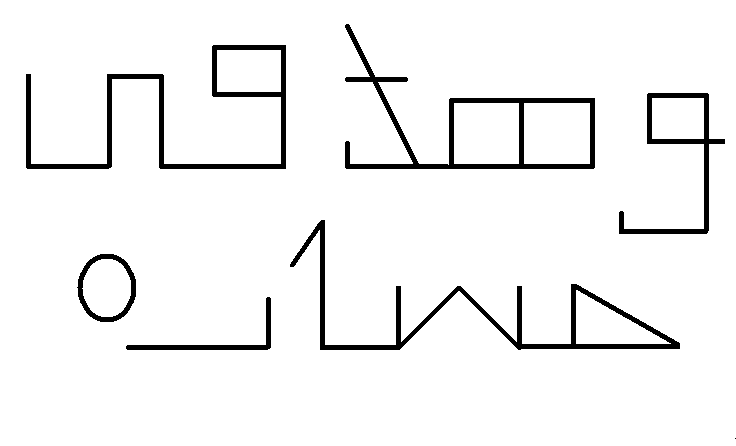 Arab numerals and the Arab sentence وهدَفي حسابْ.